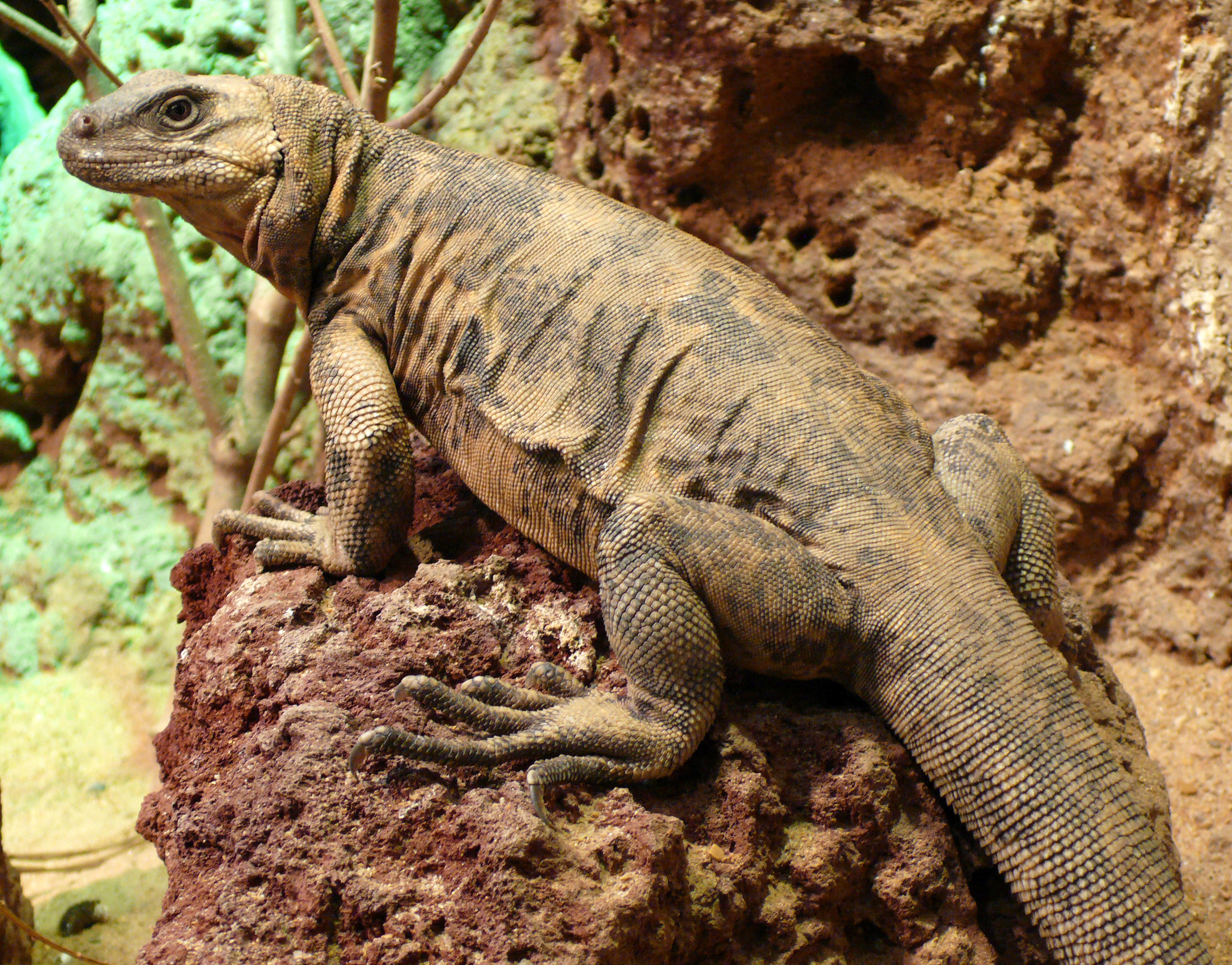 San Esteban chuckwalla (Sauromalus varius)